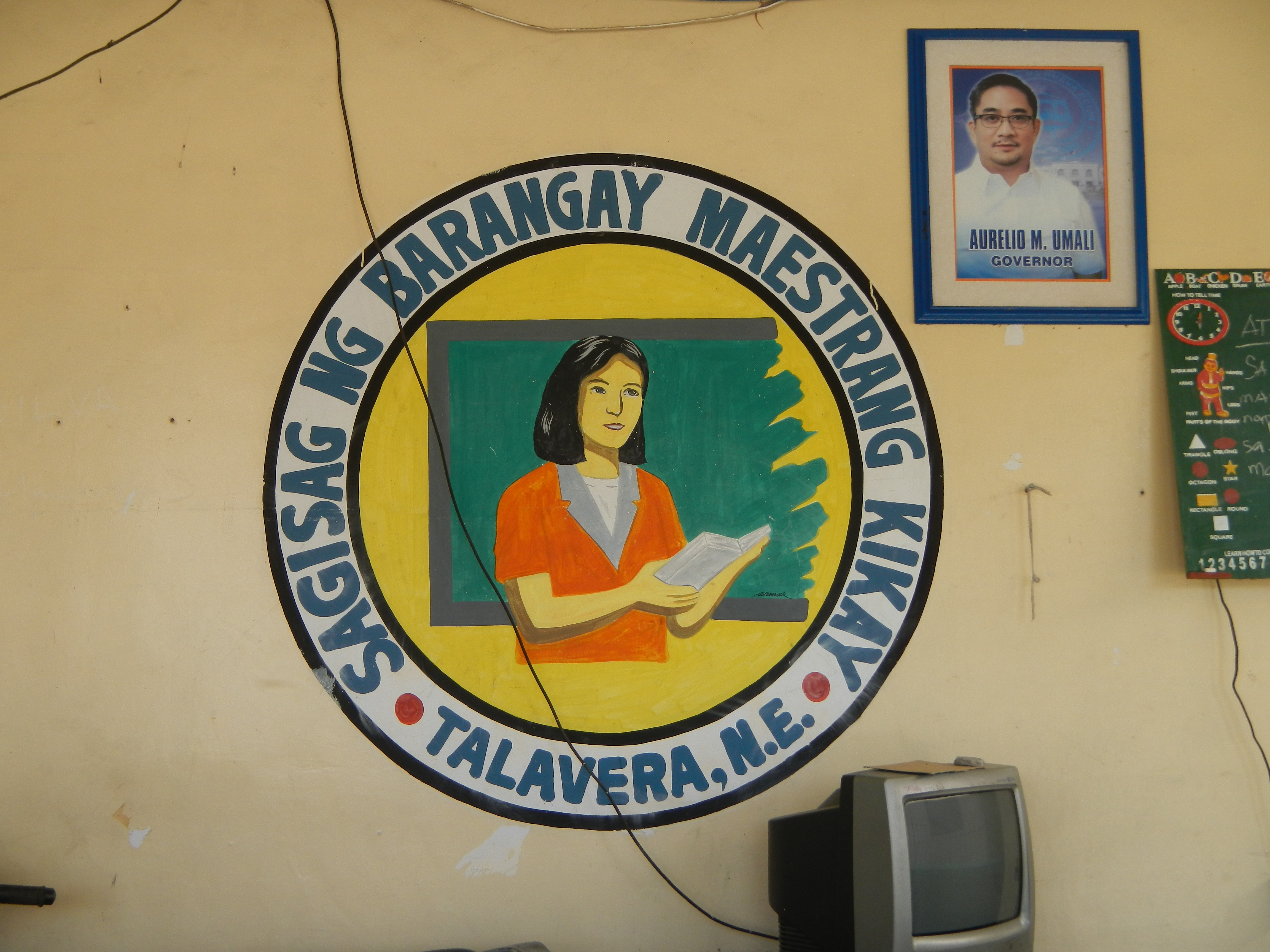 Barangay Maestrang Kikay (Poblacion), is (beside Barangay Poblacion Sur, Andal Alino (Poblacion), K0 130+147 Pulong San Miguel, and Pag-asa District (Poblacion), Talavera, Nueva Ecija from and along the Pan-Philippine Highway, also known as the Maharlika "Nobility/freeman" Highway in Cagayan Valley Road).